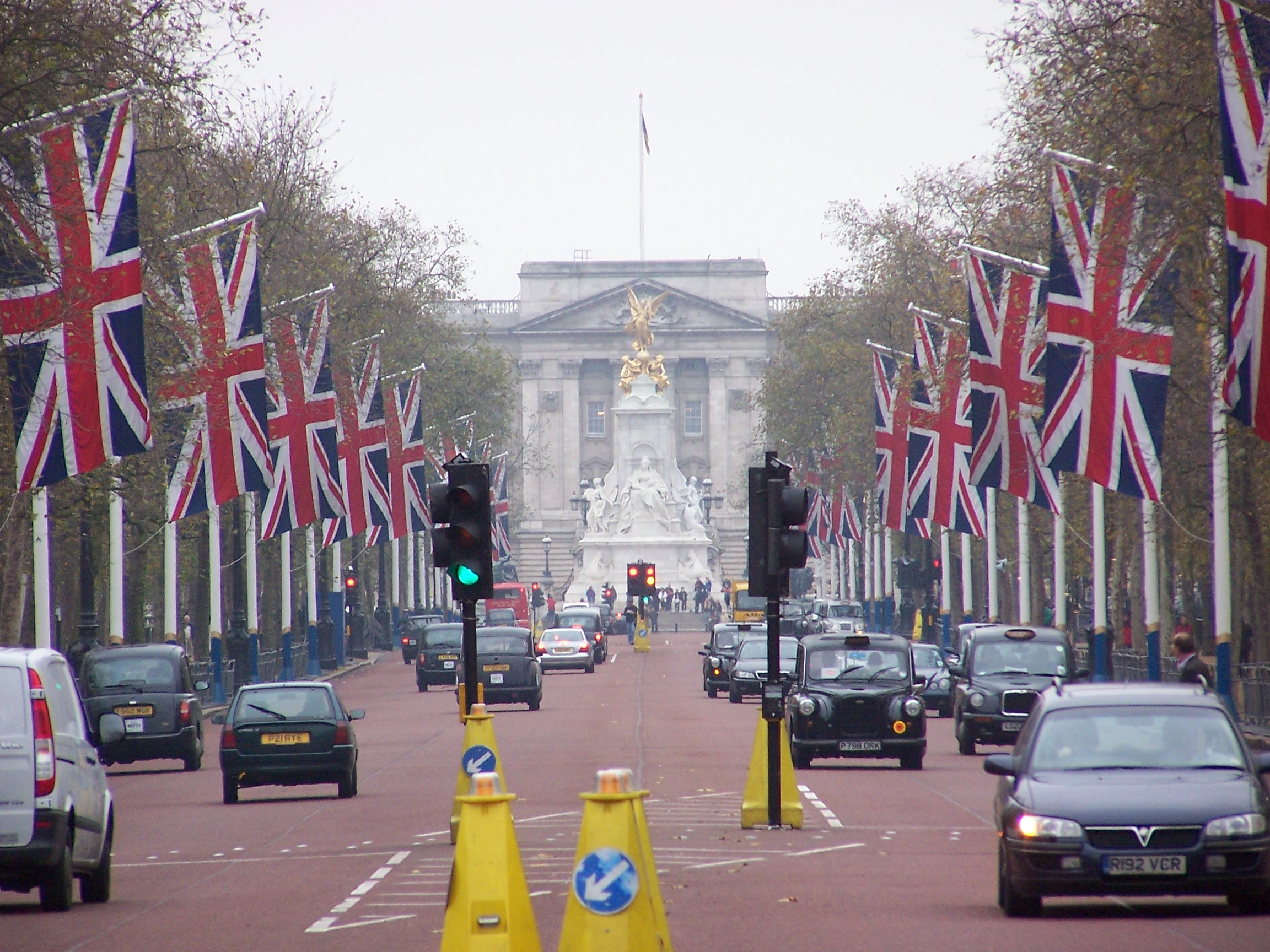 The Mall